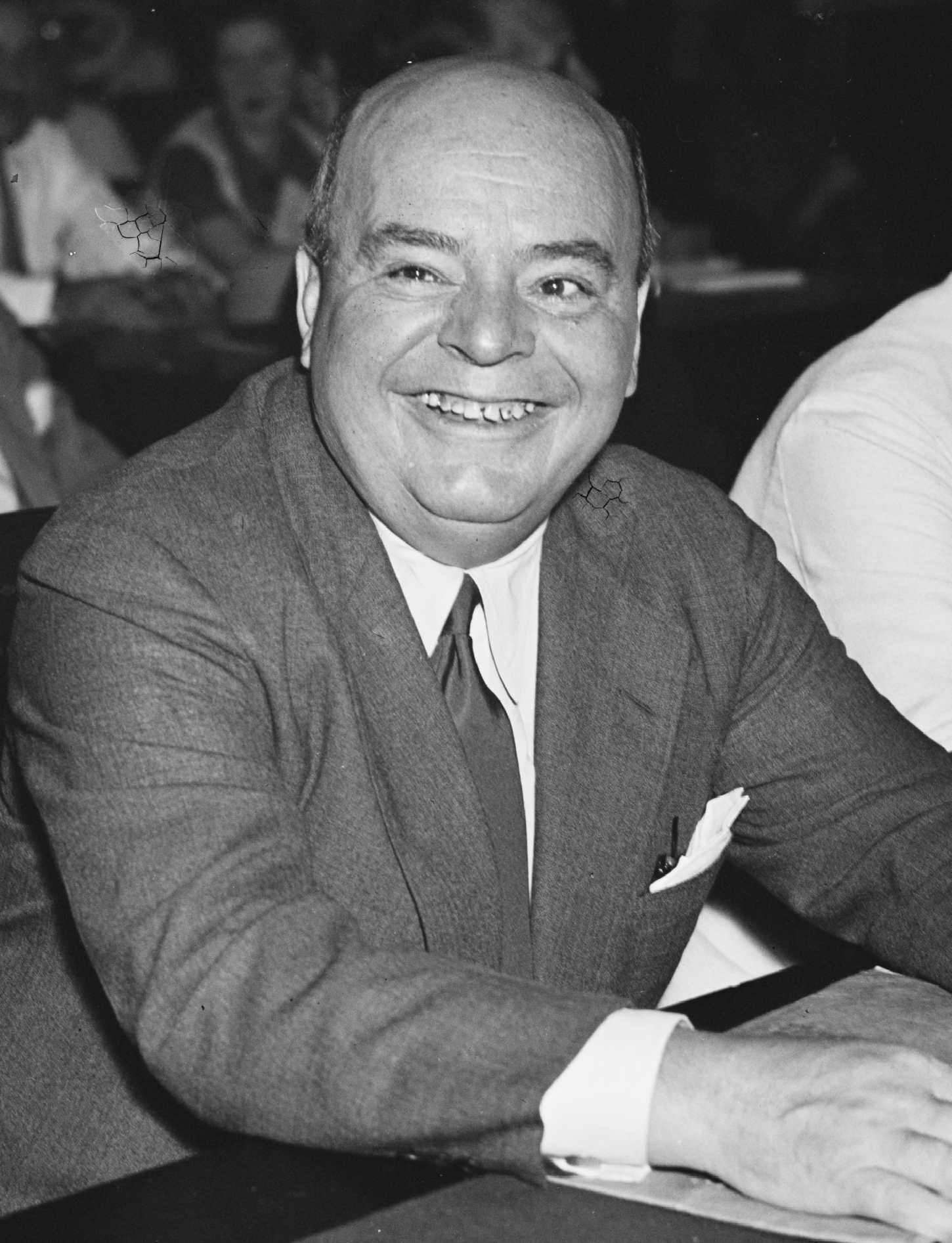 Title: Hear I am. Howard C. Hopson, long sough utility witness, appears at the House Lobby Investigation committee, to say that he doesn't like "prying into his personal income," 8/13/35